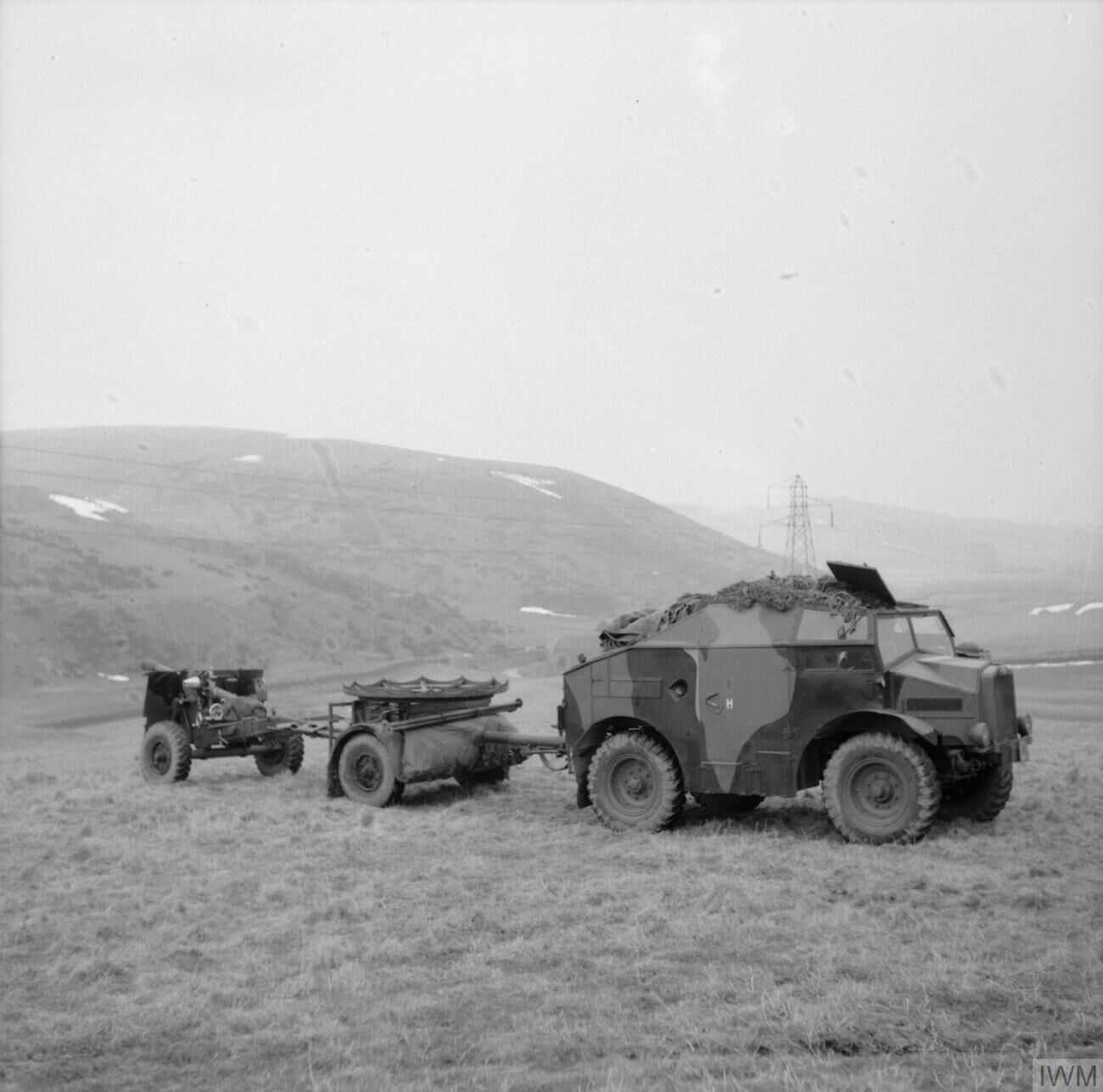 Morris-Commercial C8 'Quad' artillery tractor with limber and 25-pdr field gun, on an exercise in Scotland, 20 March 1941.